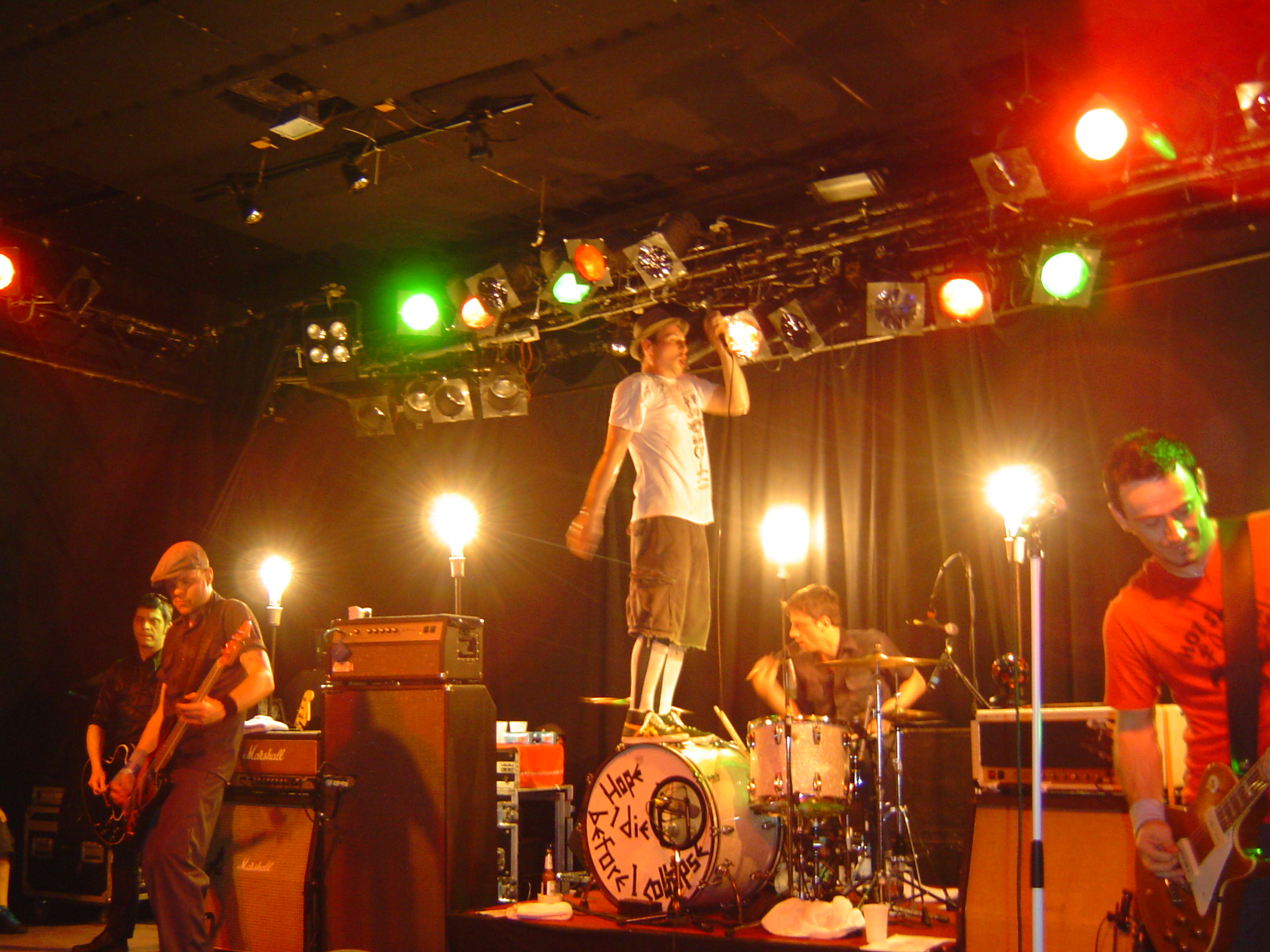 The Beatsteaks at Batschkapp club, FrankfurtBeatsteaks